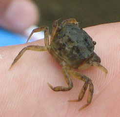 Dyspanopeus sayi caught in the Kouchibouguac River, Canada.